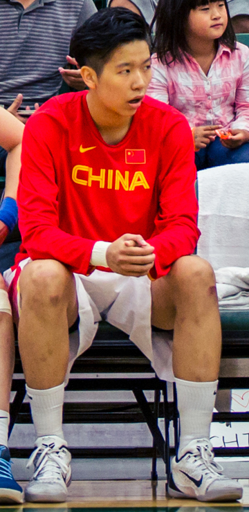 Huang Sijing sitting on the bench during the 2016 Edmonton Grads International Classic series